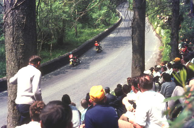 Spectators on the TT course at Glen Helen with two travelling marshals passing by